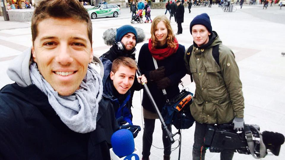 Ring Rajen crew working